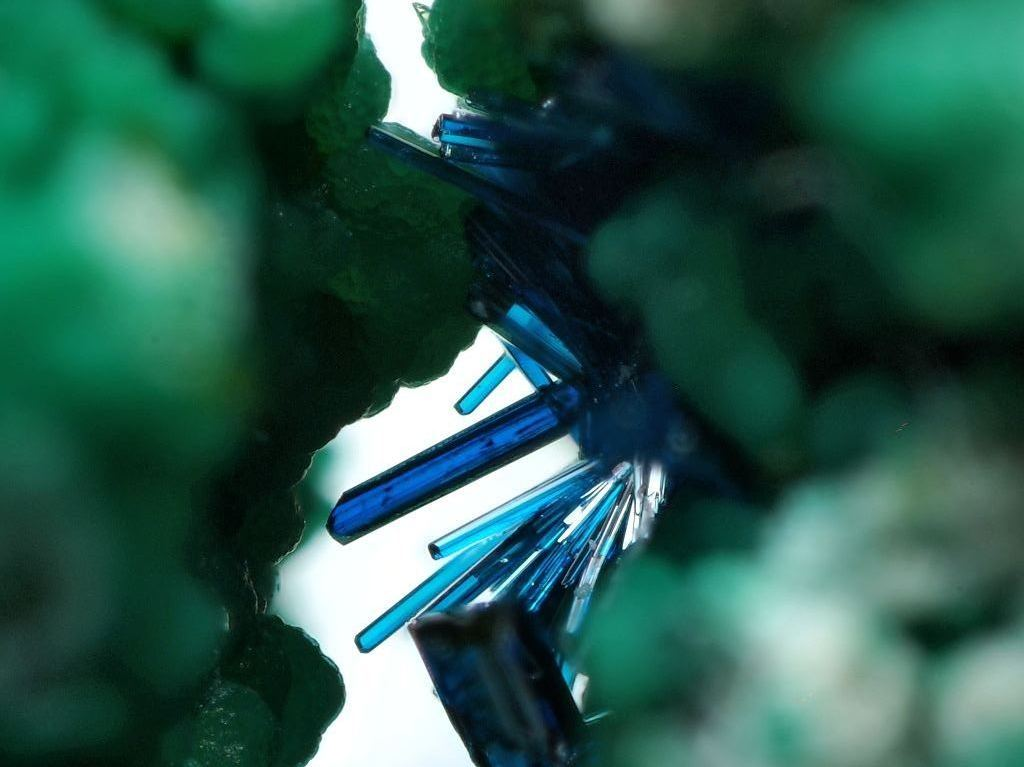 Clinoclase (FOV: 1.8 mm) Locality: Wheal Gorland, St Day United Mines (Poldice Mines), Gwennap, Camborne - Redruth - St Day District, Cornwall, England, UK